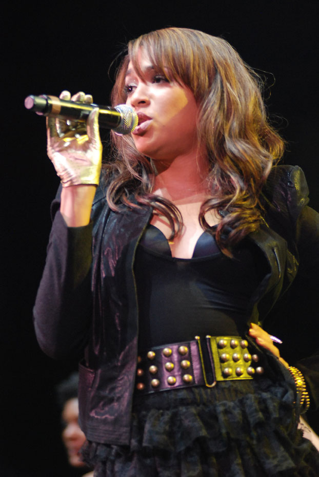 Livvi Tyler Performing at 2009 B96 Jingle Bash. Photo by Adam Bielawski